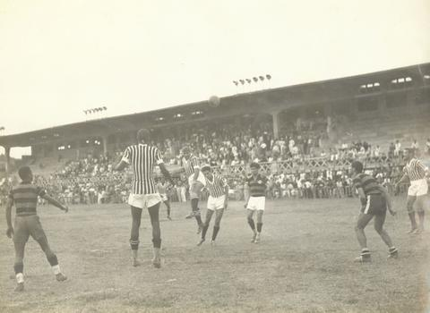 A football match between Clube Atlético Mineiro and Clube de Regatas do Flamengo at Presidente Antônio Carlos, in Belo Horizonte, 1943.